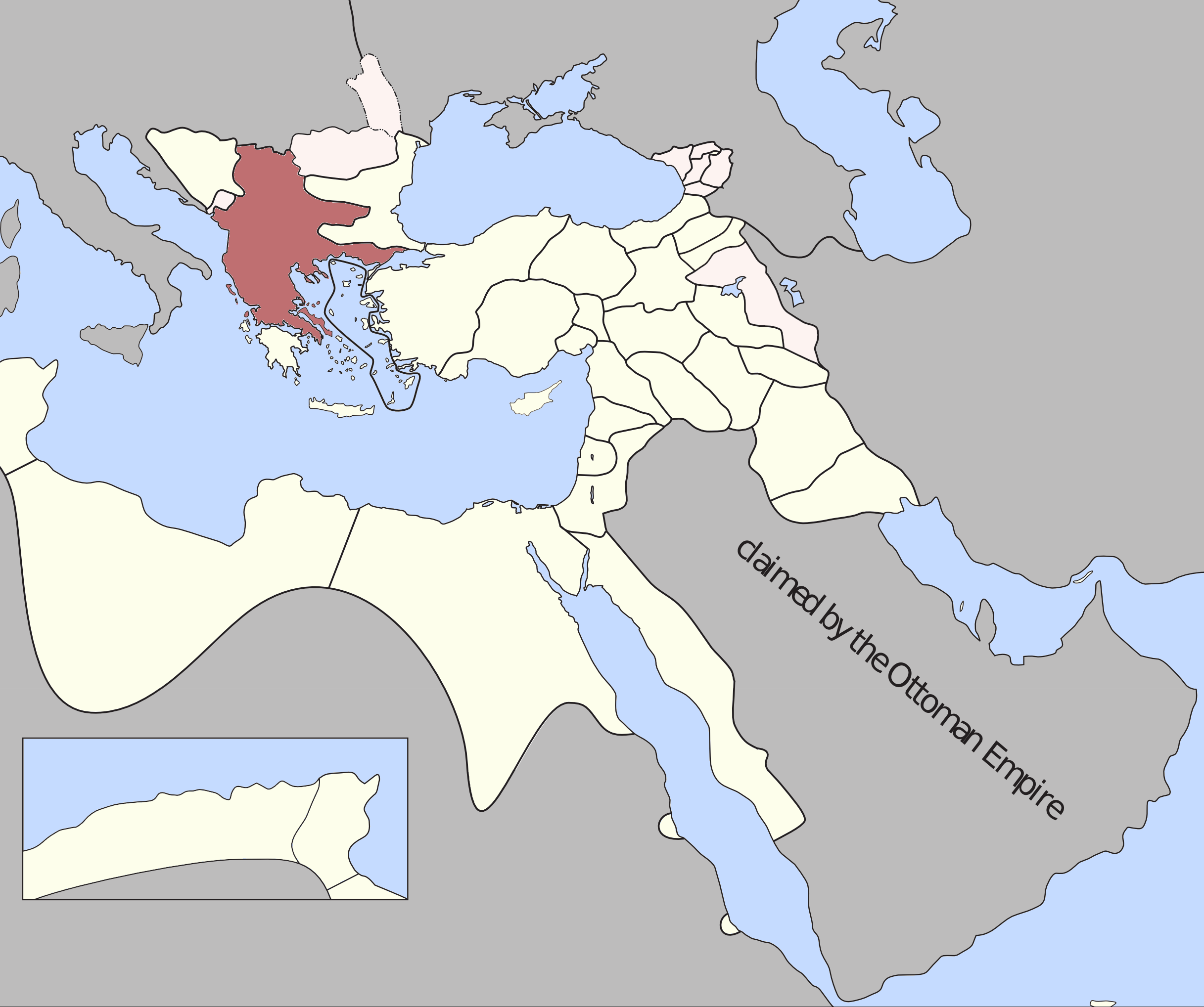 XY Eyalet, Ottoman Empire (1795). Source: A Brief History of the Late Ottoman Empire at Google Books By M. Sukru Hanioglu, Figure 1